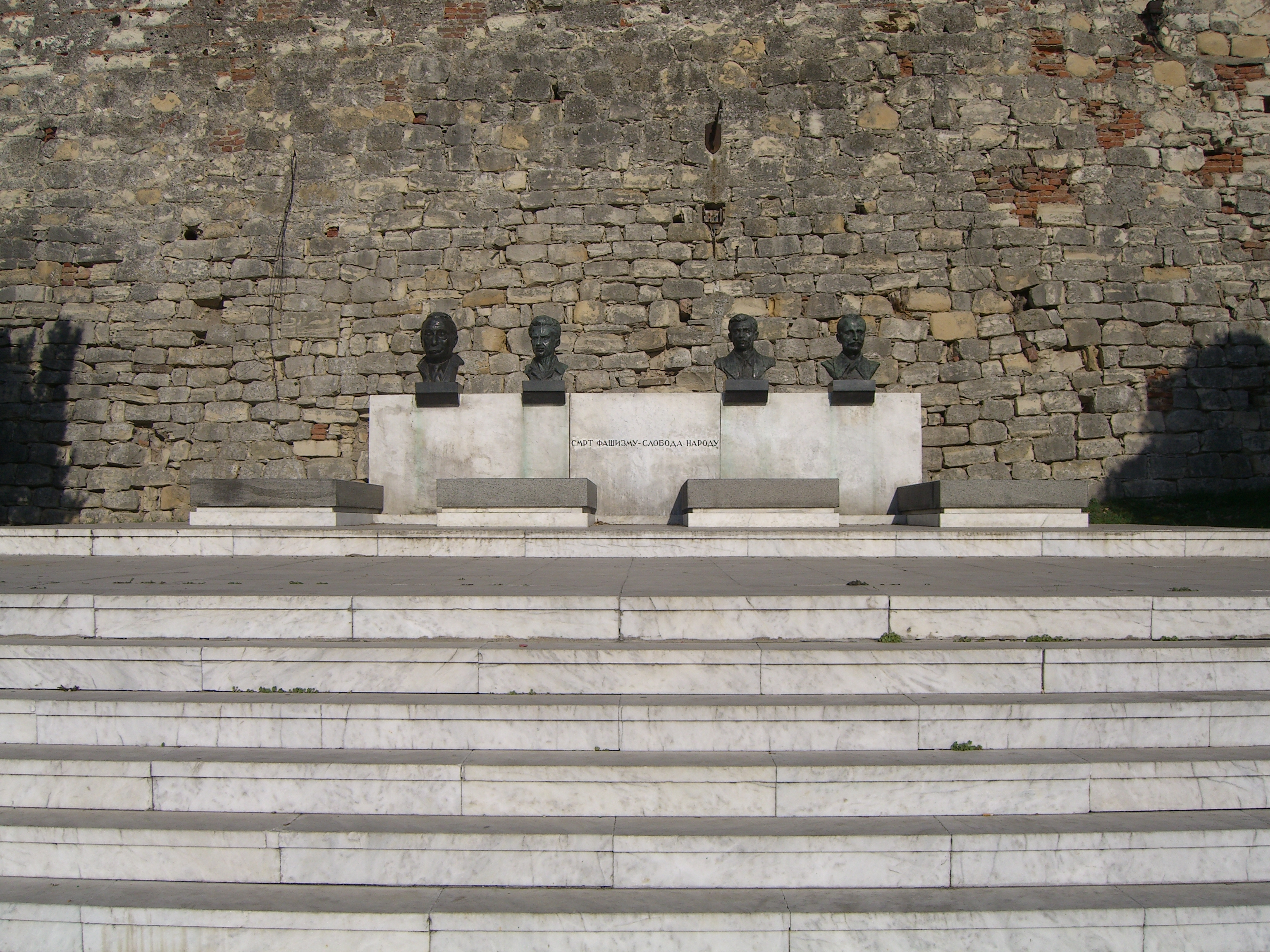 Death to fascism, freedom to the people monument - smrt fasizmu sloboda narudu monument (KALEMEGDAN, BELGRADE)